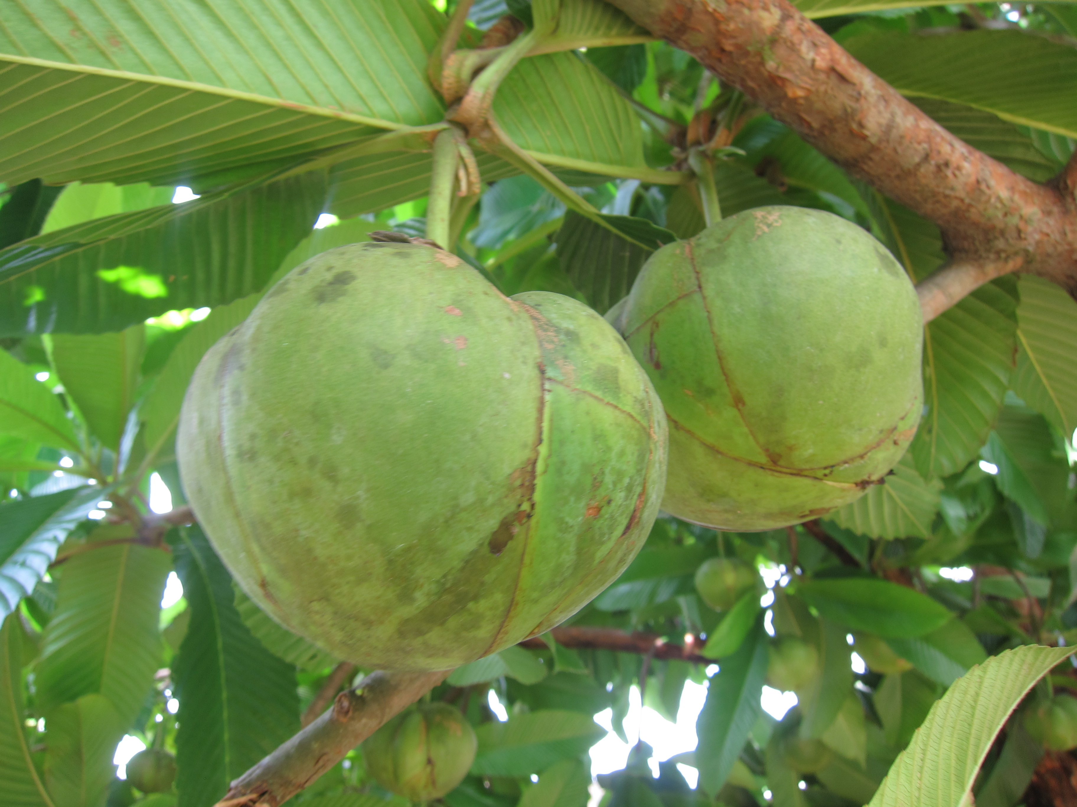 Elephant Apple Dillenia_indica മലമ്പുന്ന